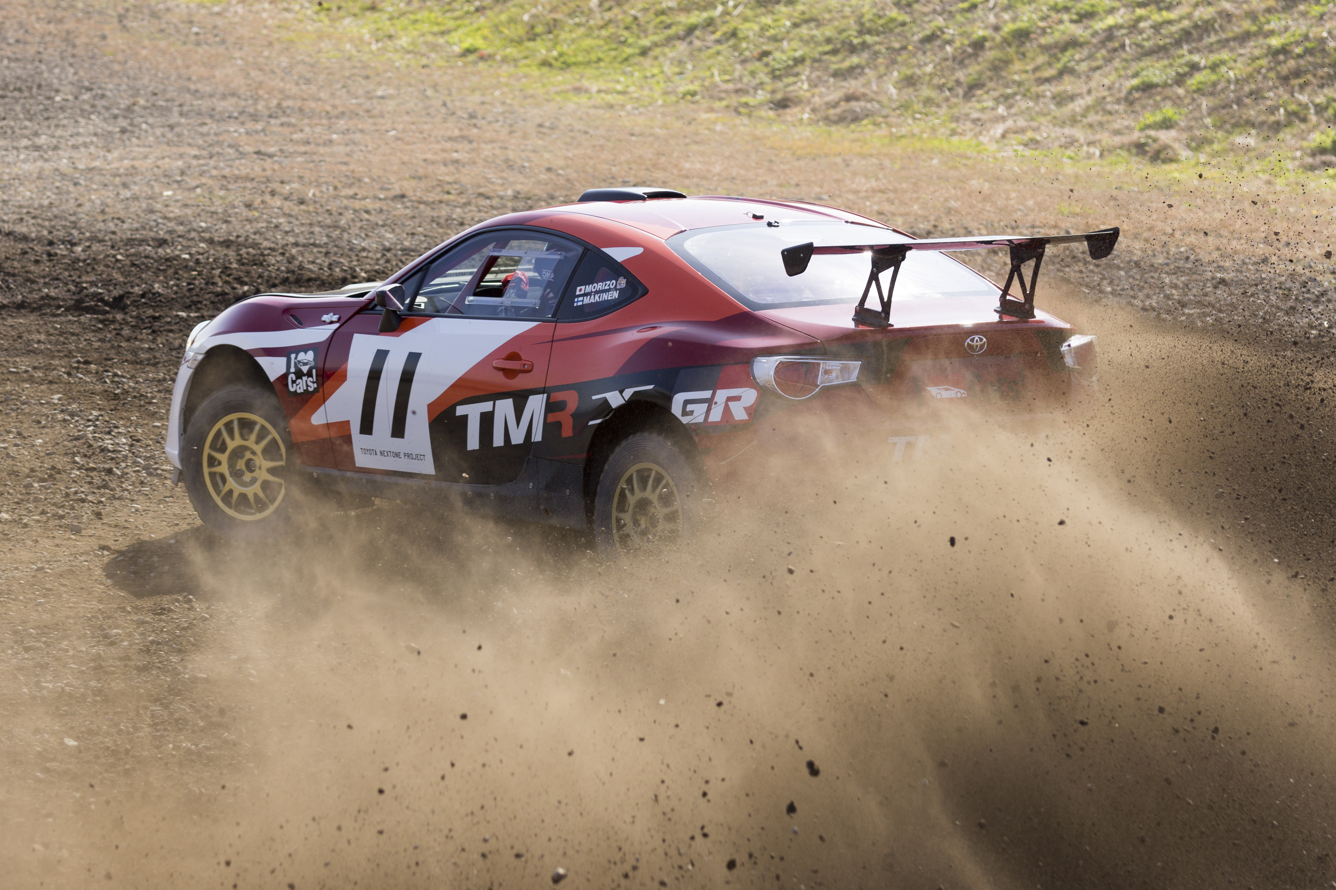 GAZOO Racing GR 86x is coproduced by Tommi Makinen Driving by MORIZO (GAZOO Racing)